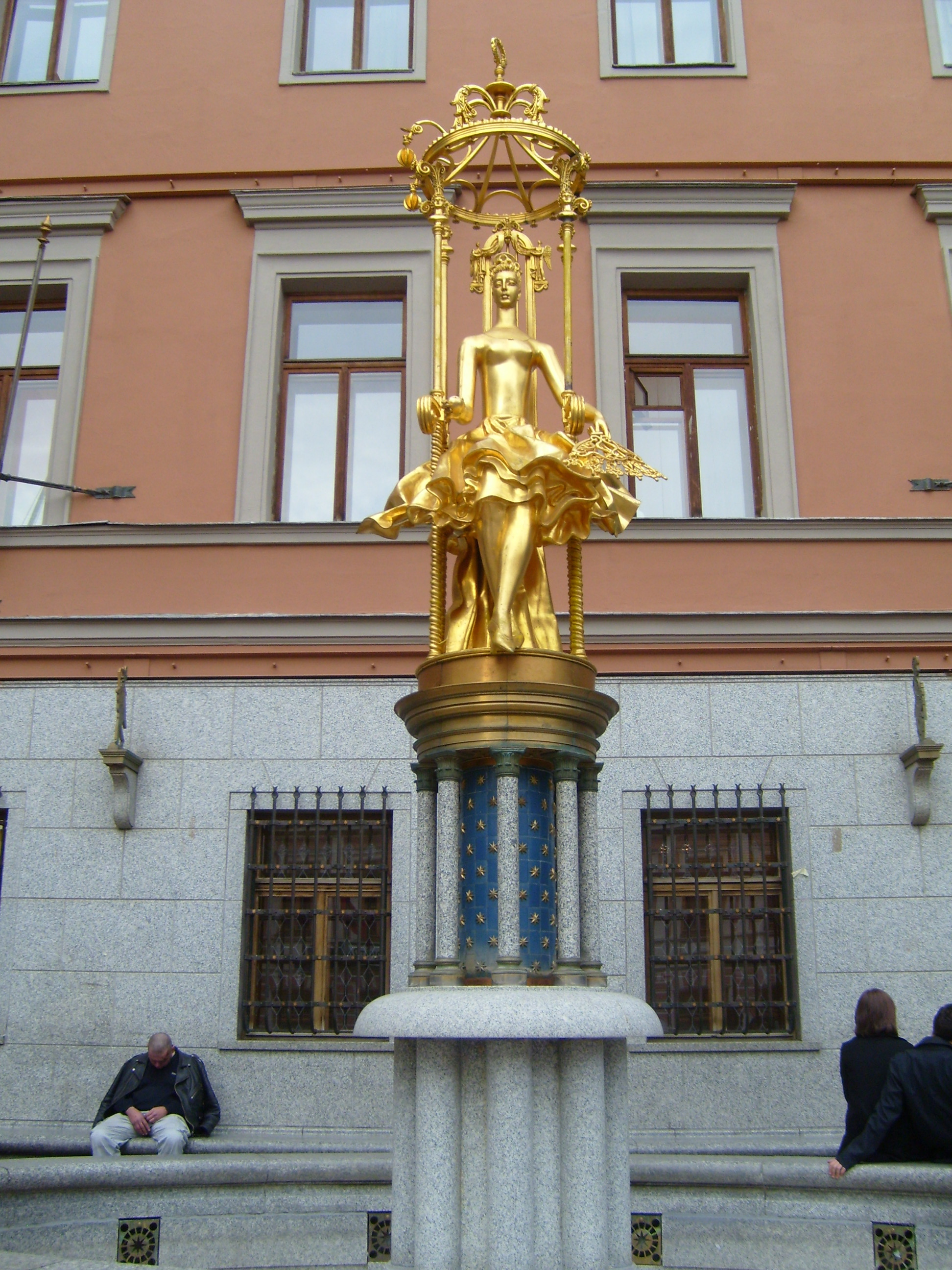 Princess Turandot Fountain on Stariy Arbat Street, Moscow, by Alexander Bourganov